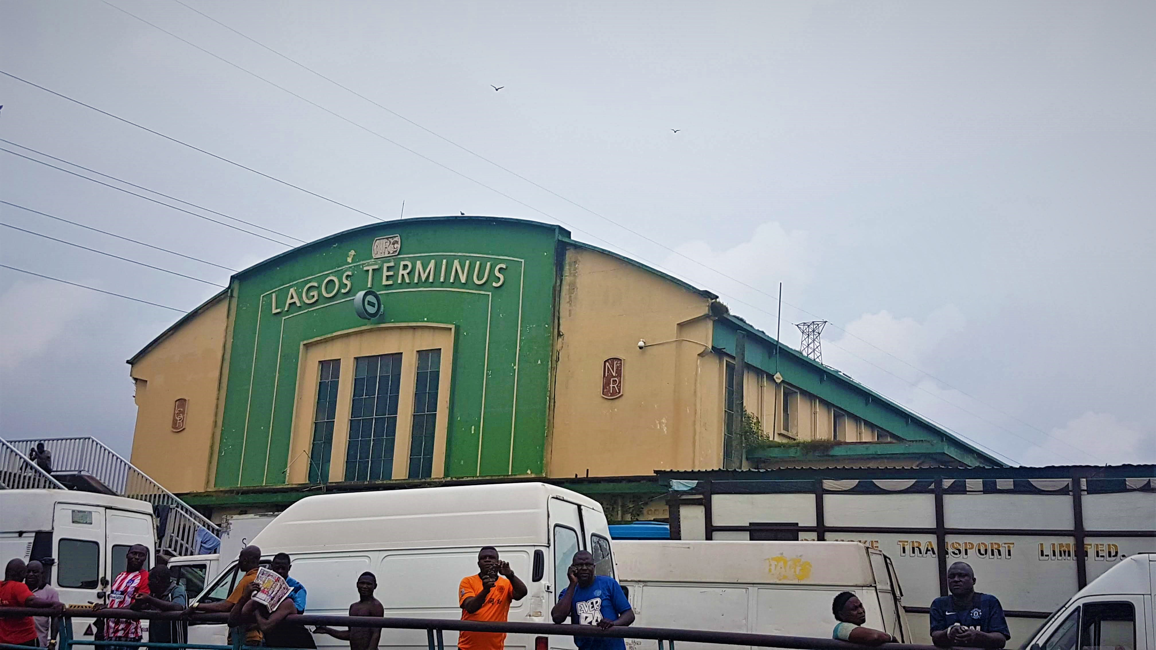 Iddo Terminus Building